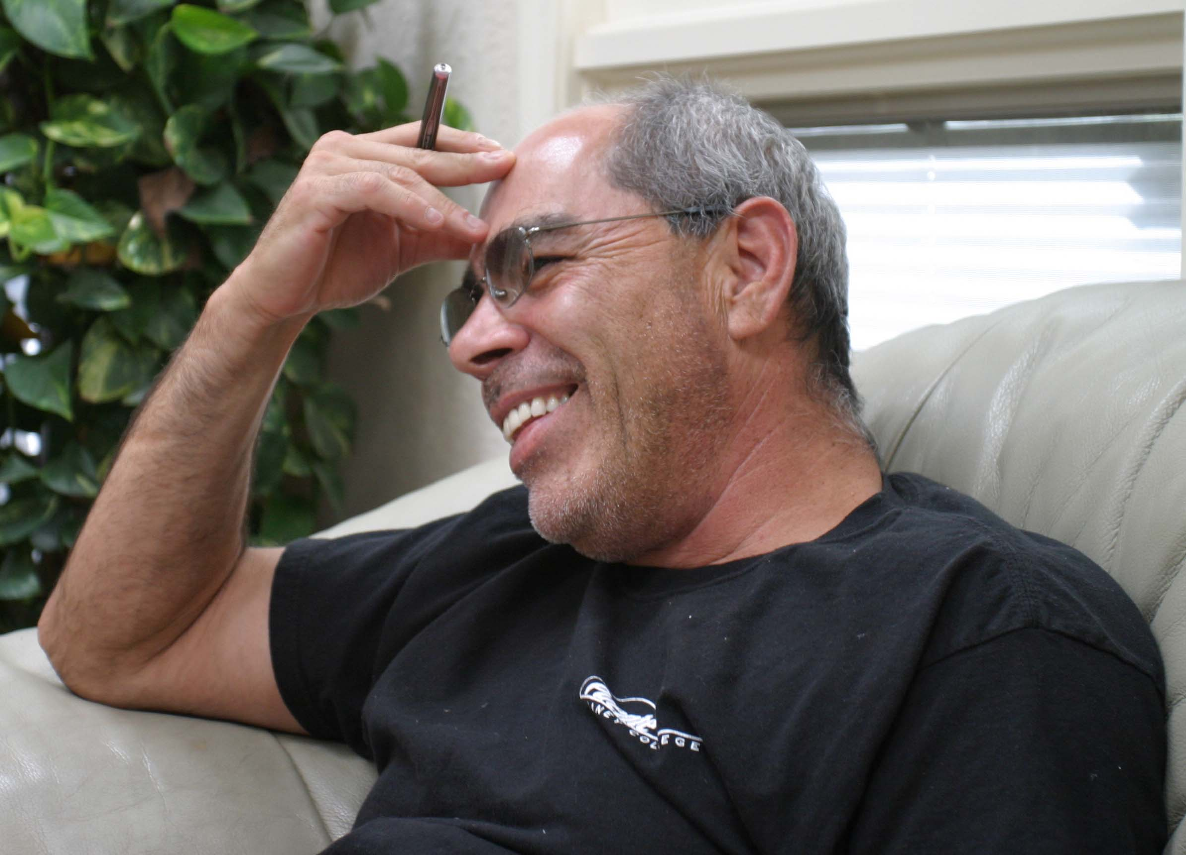 Jimmy Santiago Baca, photographed by Gloria Graham during the video taping of Add-Verse, 2004